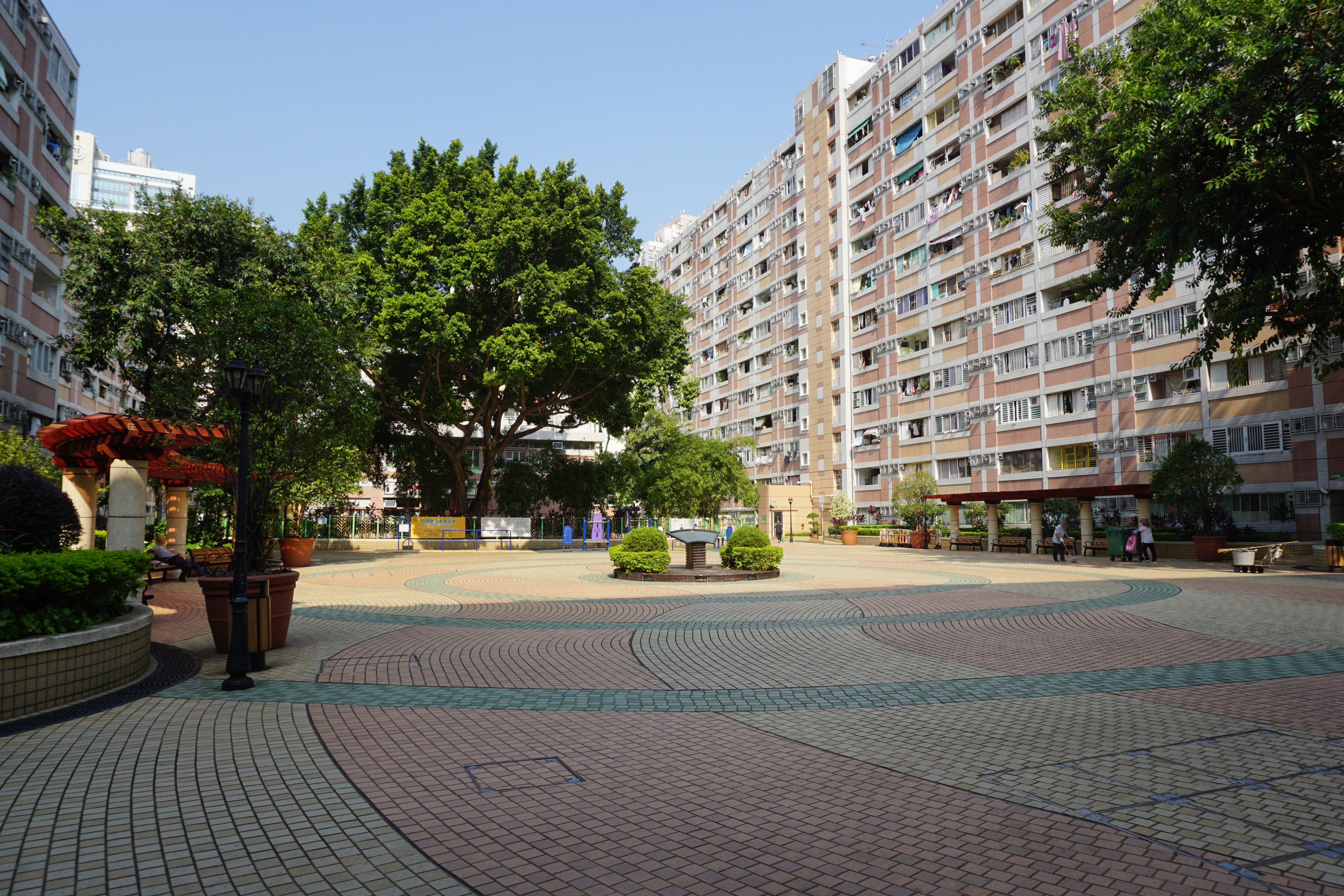 Moon Lok Dai Ha in Tsuen Wan, Hong Kong.